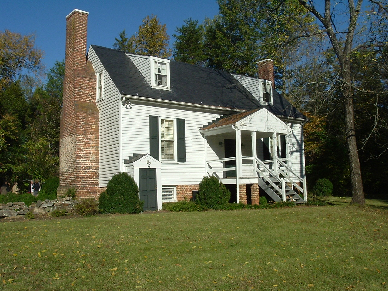 Image taken by John Duke of the Society of the Descendants of Peter Francisco; Mr. Duke has given his permission for this image to be used on Wikipedia and other such projects